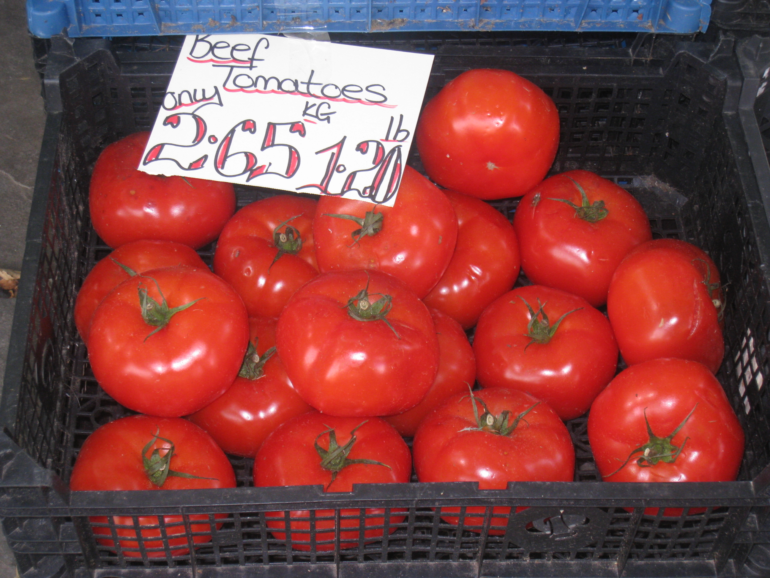 Tomatoes at a market stall in Kingsmead Square, Bath, Somerset, England with prices per kilogram and per pound